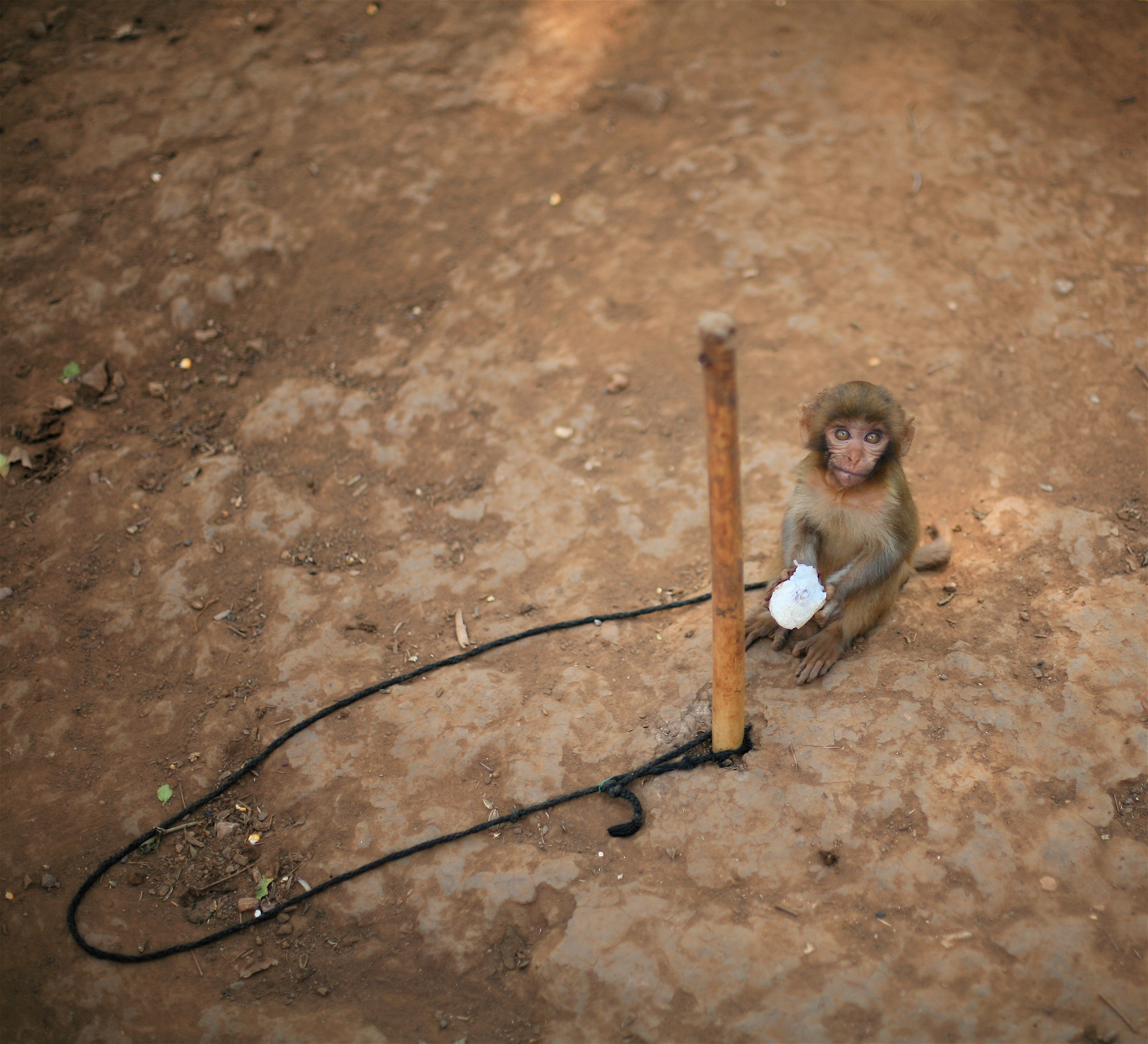 little monkey in captivity in Thailand